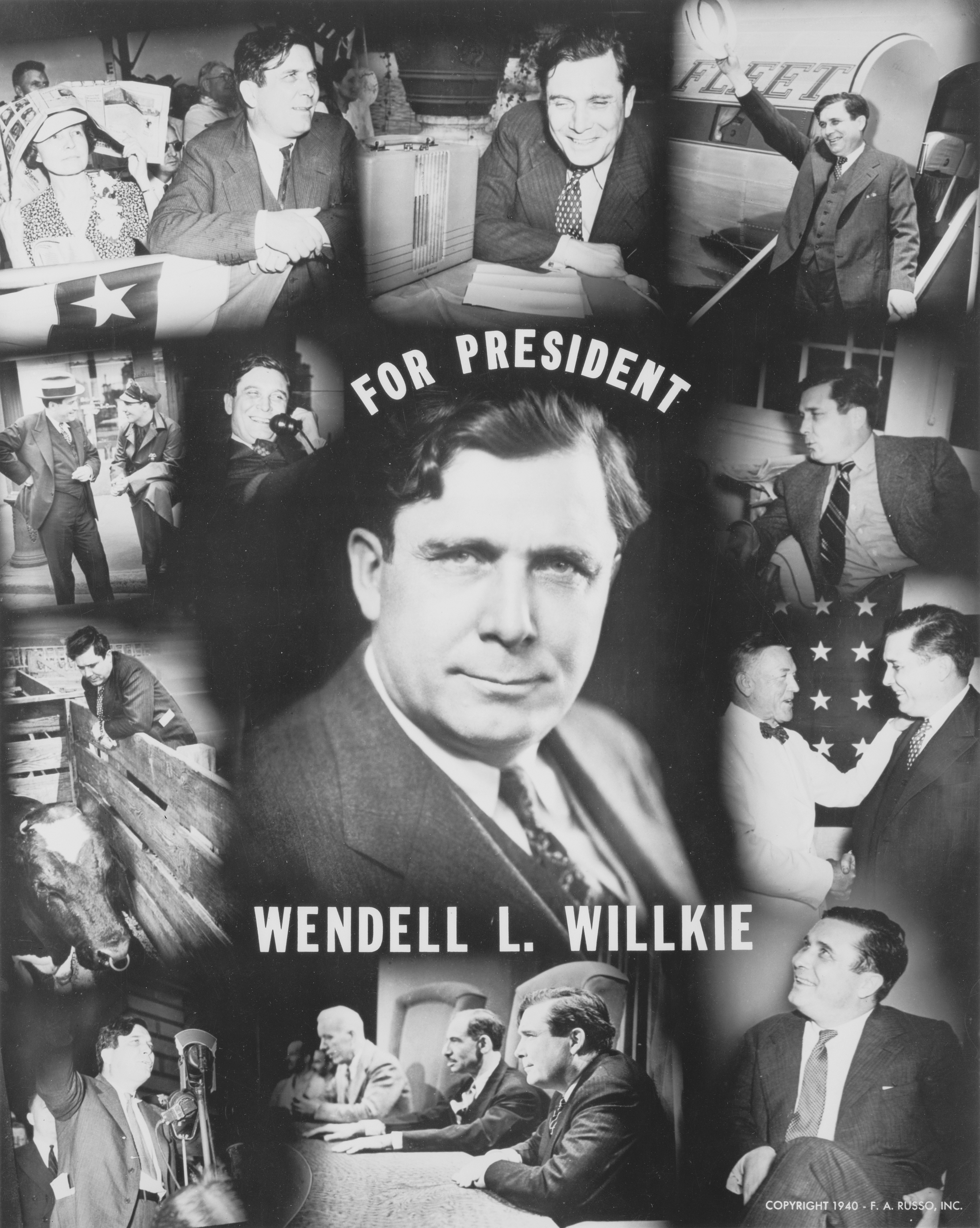 1940 presidential campaign poster of American politician Wendell Willkie (1892-1944)